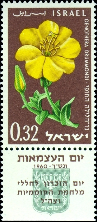 Twelfth Independence Day stamp - 0.32 Israeli lira - Oenothera Drummondi. Inscription on tab: "The Twelfth Independence Day", "Memorial Day for the Fighters for Independence"